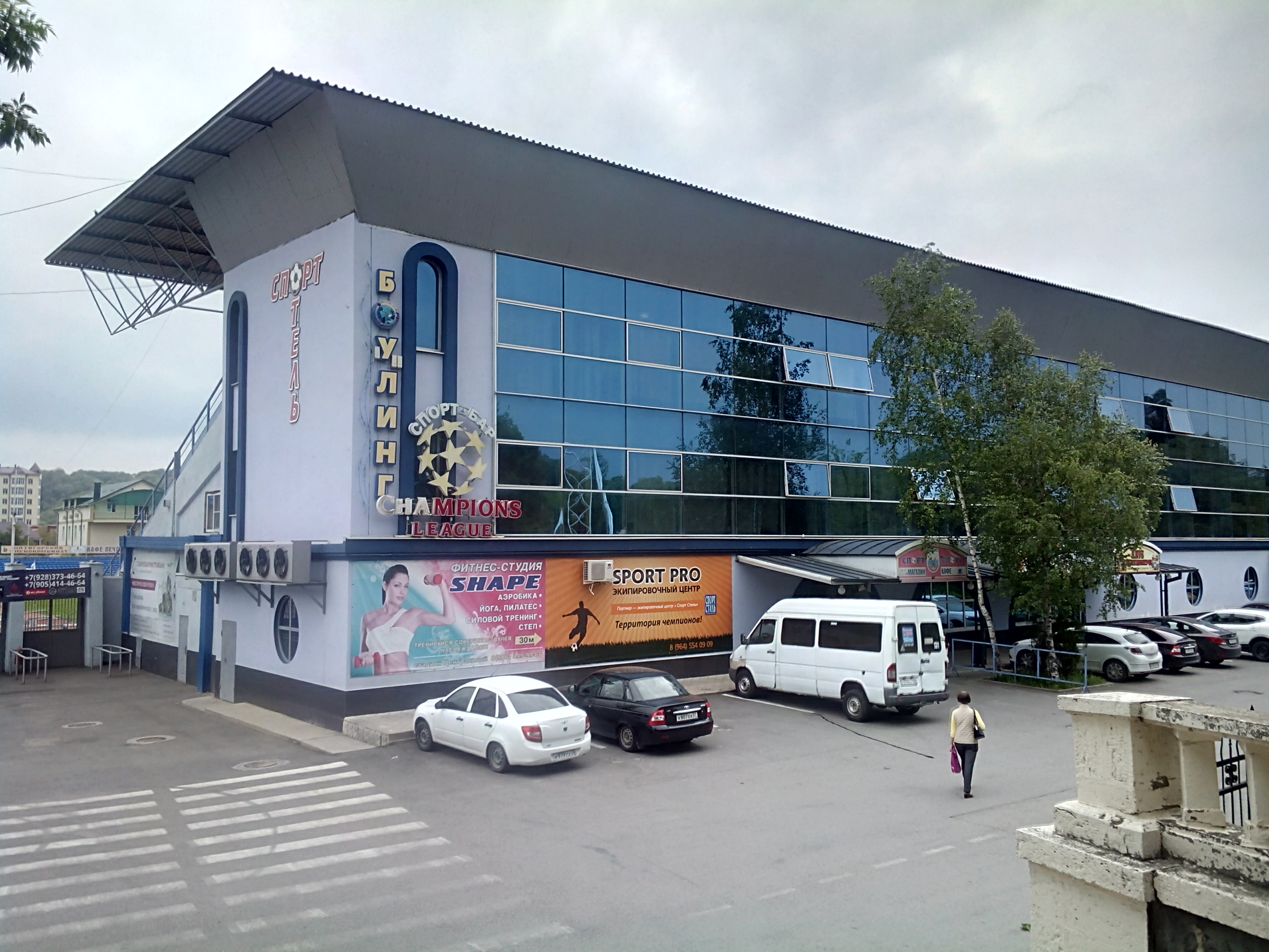 Central Stadium in Pyatigorsk, Stavropol Krai, Russia